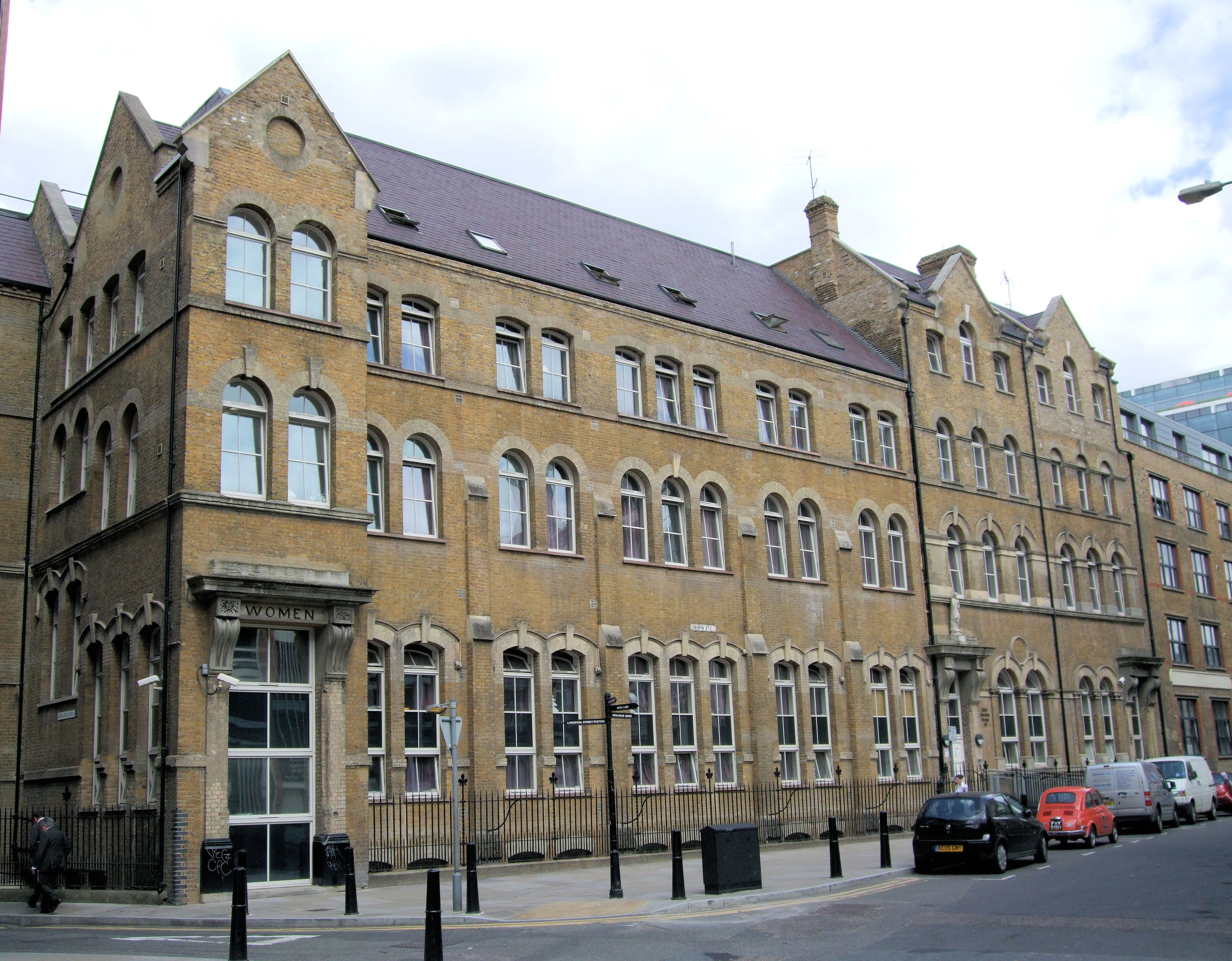 Formerly Providence Row Night Refuge Home and Convent of Mercy, 47-49, 50 Crispin Street & 1-9 Gun Street, Spitalfields. The building was opened in 1868. It provided accommodation for 300 women and children, and 50 men, as well as a convent for the Sisters of Mercy who ran the refuge. The refuge continued to operate until 1999. Much of the rear parts of the properties were demolished (although the facades still remain) and since 2006 the building has been called Lilian Knowles|Lilian Knowles House. It is used as accommodation for students of the London School of Economics and is managed by Shaftesbury Student Housing.